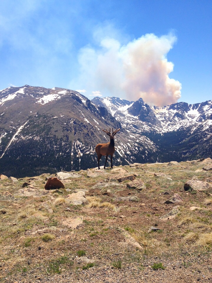 Smoke from the Big Meadows fire rises over the continental devide. A rocky mountain elk is in the foregraound.